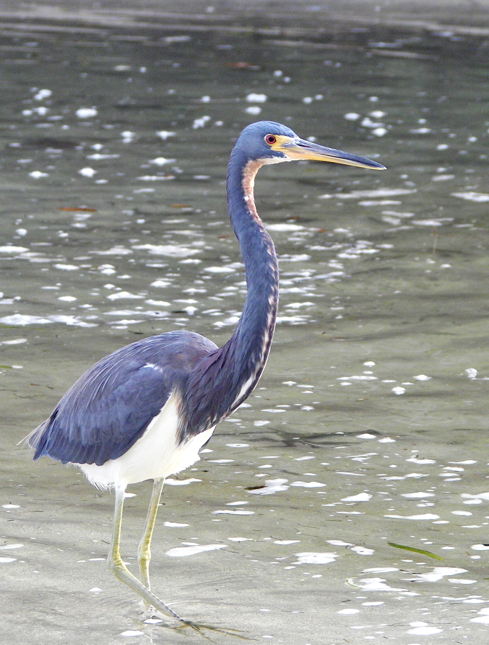 Tricolored Heron Egretta tricolor in its natural environment at the Cahuita National Park, Costa Rica